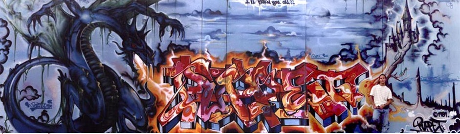 ["Ill burn you all!" Graffiti wall painted in sweden västerås by artist Puppet (Daniel Blomqvist)spring 1989]